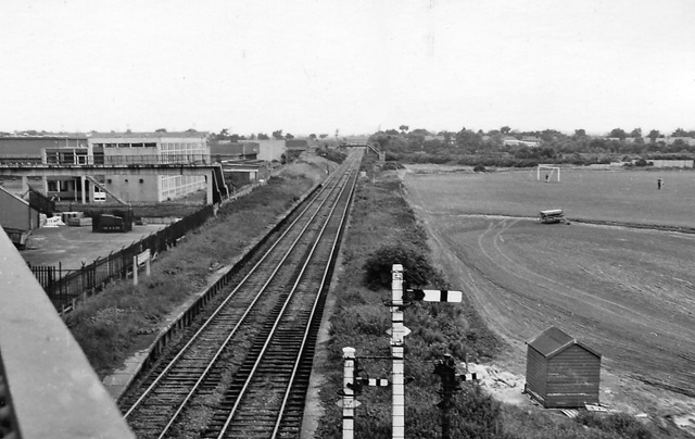 Belasis Lane Station (remains). View westward, towards Billingham; Billingham - Haverton Hill - Port Clarence branch. The line was served by regular passenger trains until 14/6/54, but to workmen's service until 6/11/61 and to goods until 2/11/64. Note the nameboard remained in 1970. The Halt was only opened in May 1928.